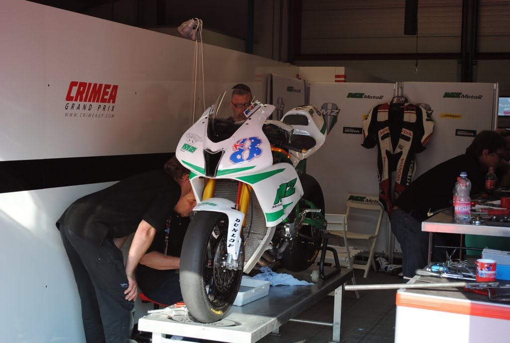 MZ Moto2